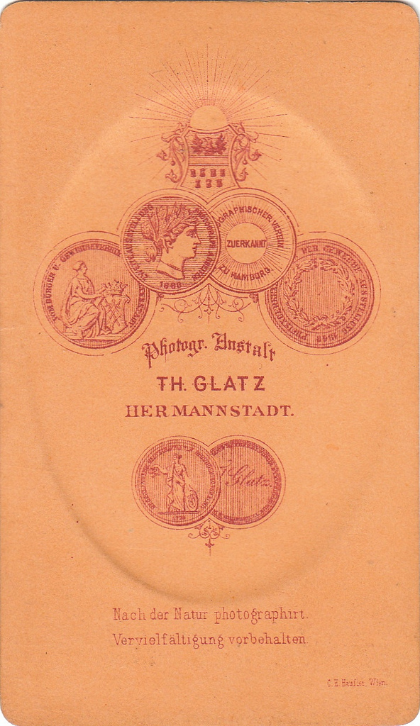 Theodor Glatz - Business card